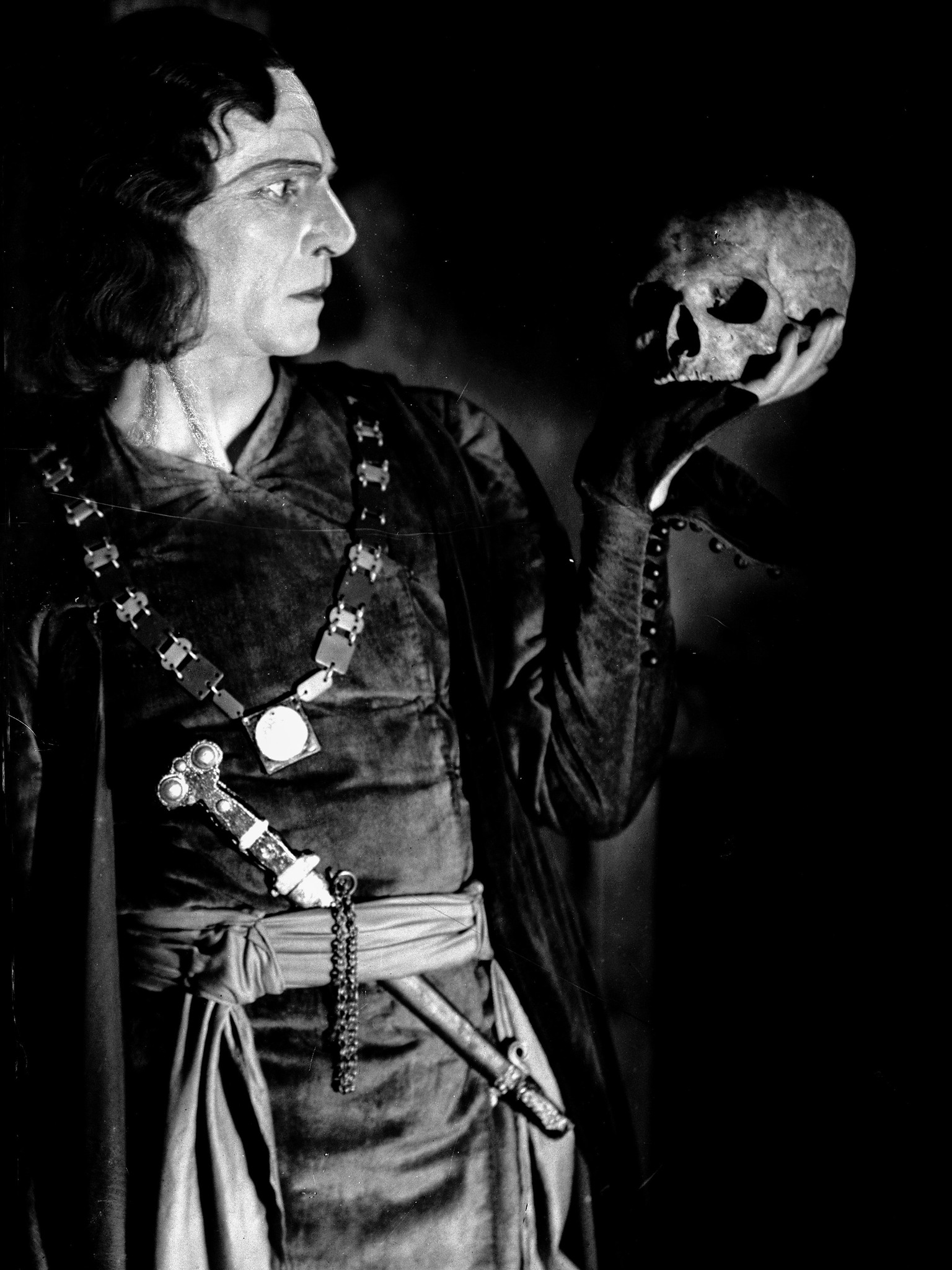 Sharifzade as Hamlet. Turkic (Azeri) Academic Teather. 1926-27.